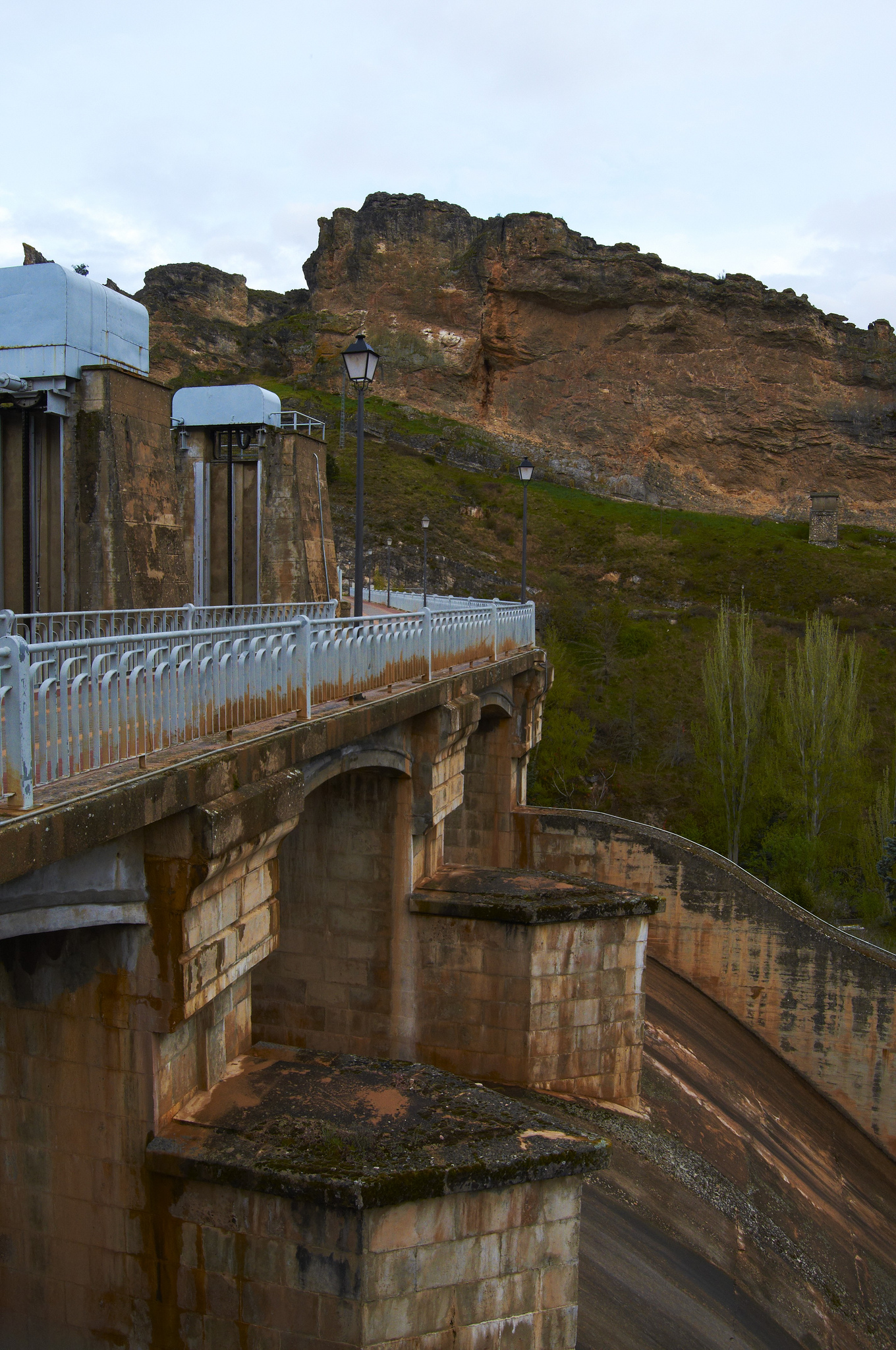 Dam of Pálmaces Reservoir, in Pálmaces de Jadraque, Guadalajara, Spain.